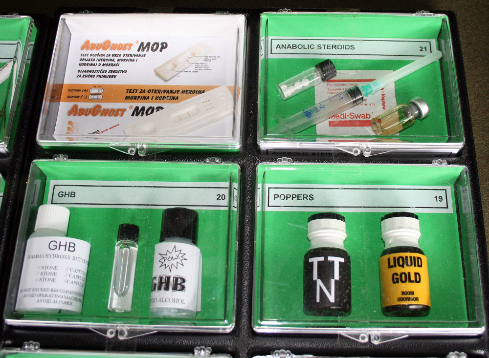 urine test, anabolic steroids, GHB, poppers